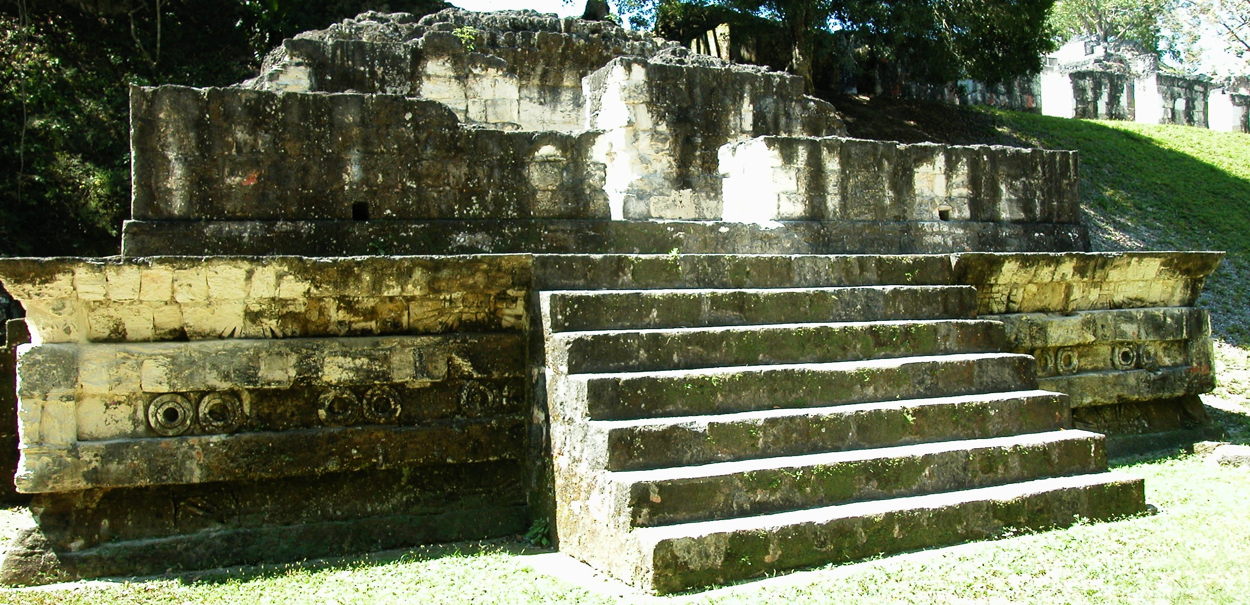 Talud Tablero Temple in Tikal, behind Temple I